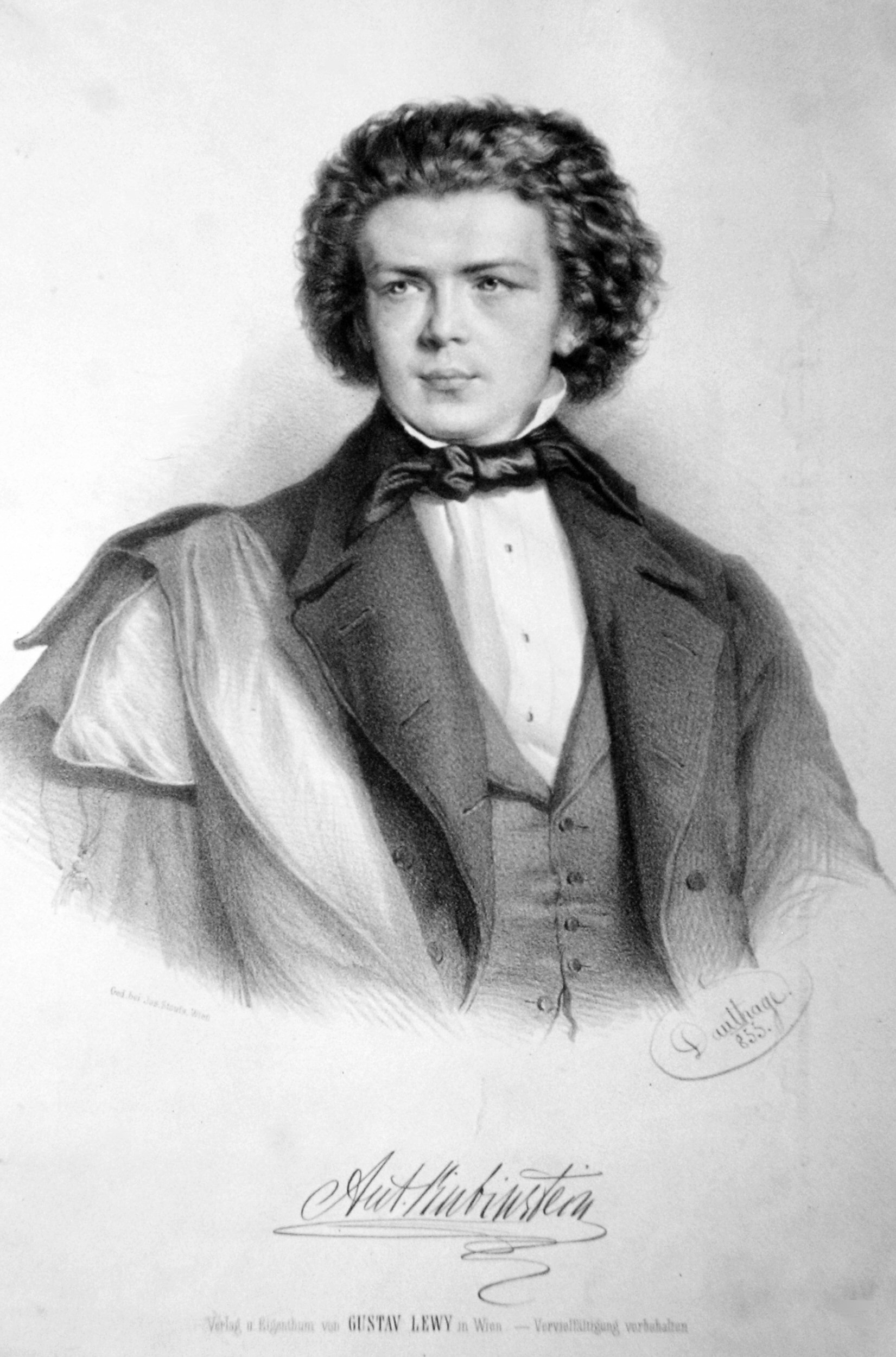 Anton Rubinstein (1829-1894),Composer, Pianist Lithograph by Adolf Dauthage, 1855